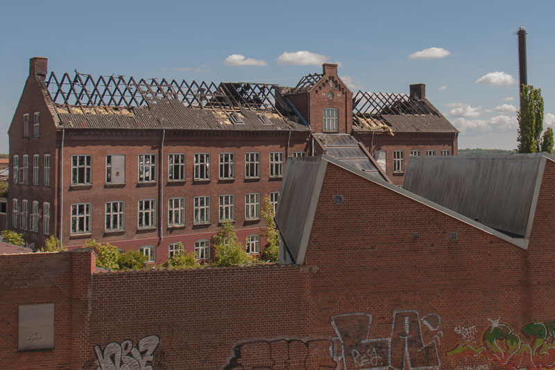 Voss Factory in Fredericia, Denmark, after fire, which took place, Sunday 7. June 2015